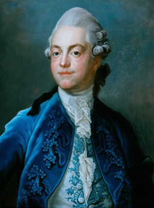 Portrait of Adolf Ludvig Piper (1750-1795)